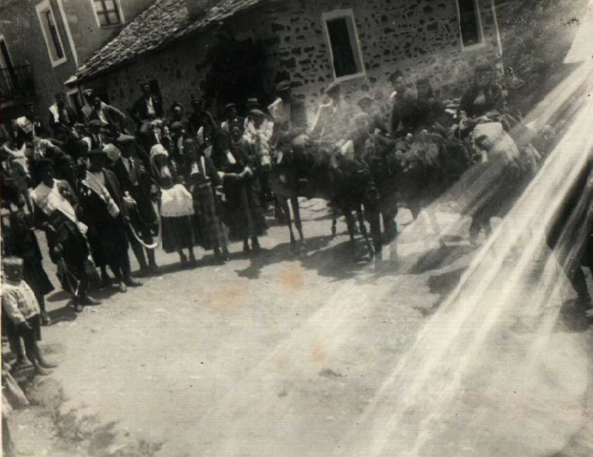 Wedding ceremonies in Progled, Bulgaria